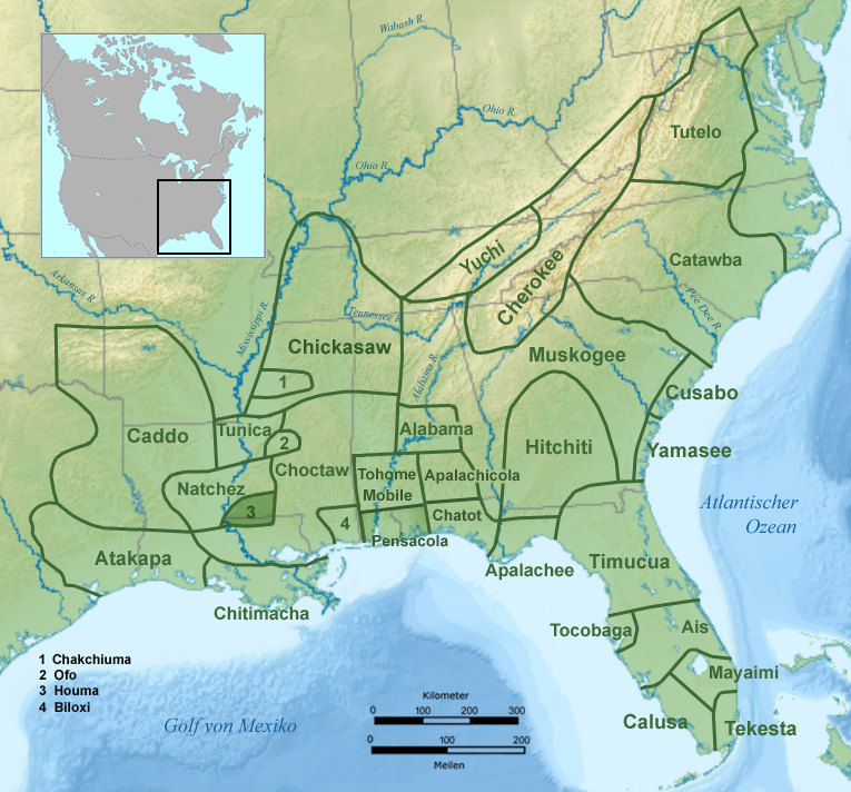 Tribal territory of Houma during eighteenth century